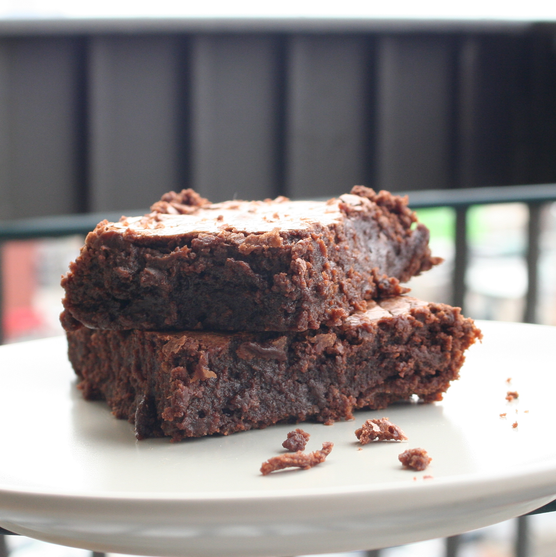 Brownie with crumbs on plate.